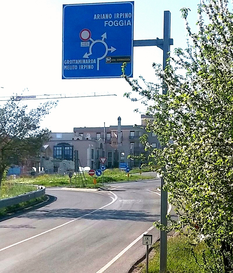 Crossroads between SS90dir and SS90 statal roads near Ariano Irpino, Italy